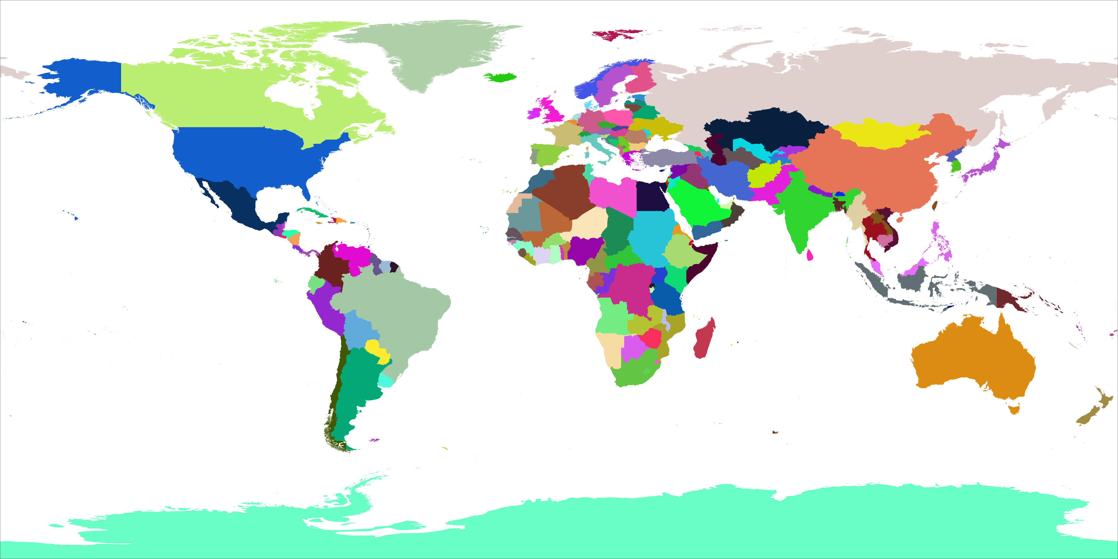 World countries based on GADM level 0